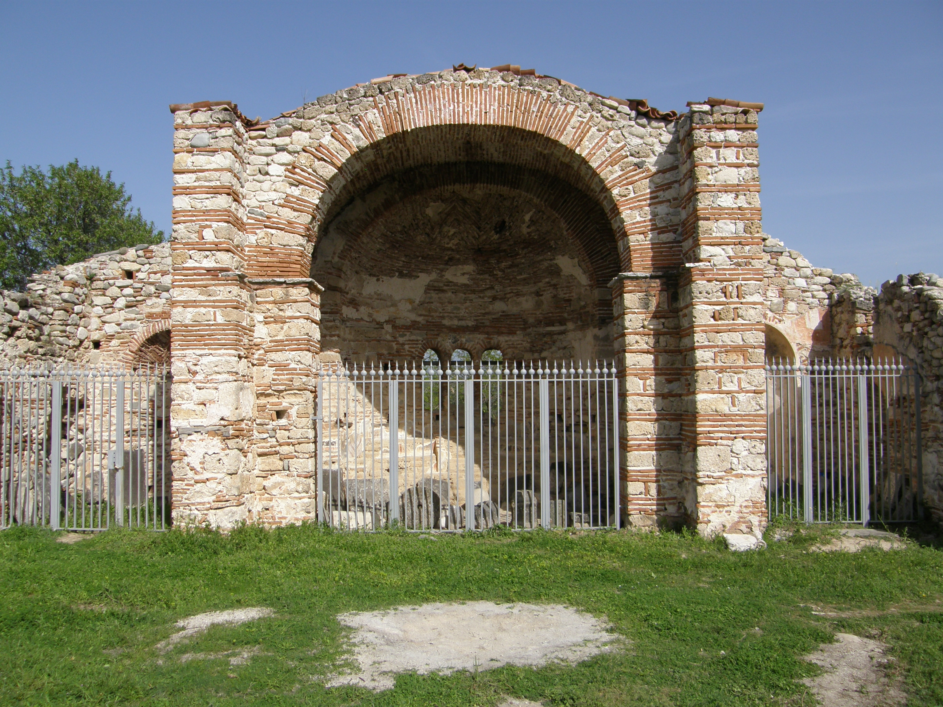 The ruins of "Saint Nicola" church at Melnik, Bulgaria. "Saint Nicola" church at Melnik, Bulgaria...